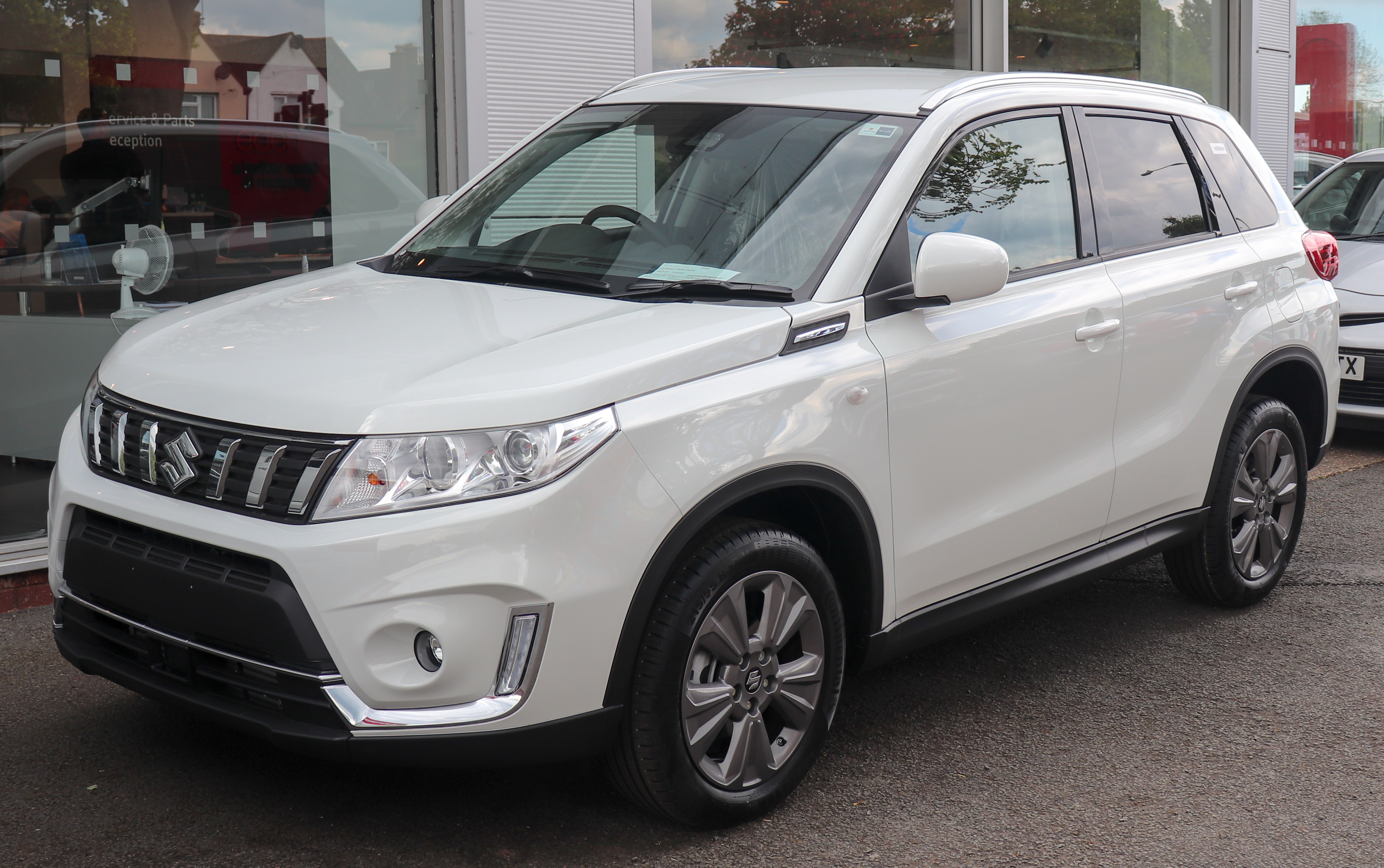 2019 Suzuki Vitara facelift Front Taken in Stratford-upon-Avon